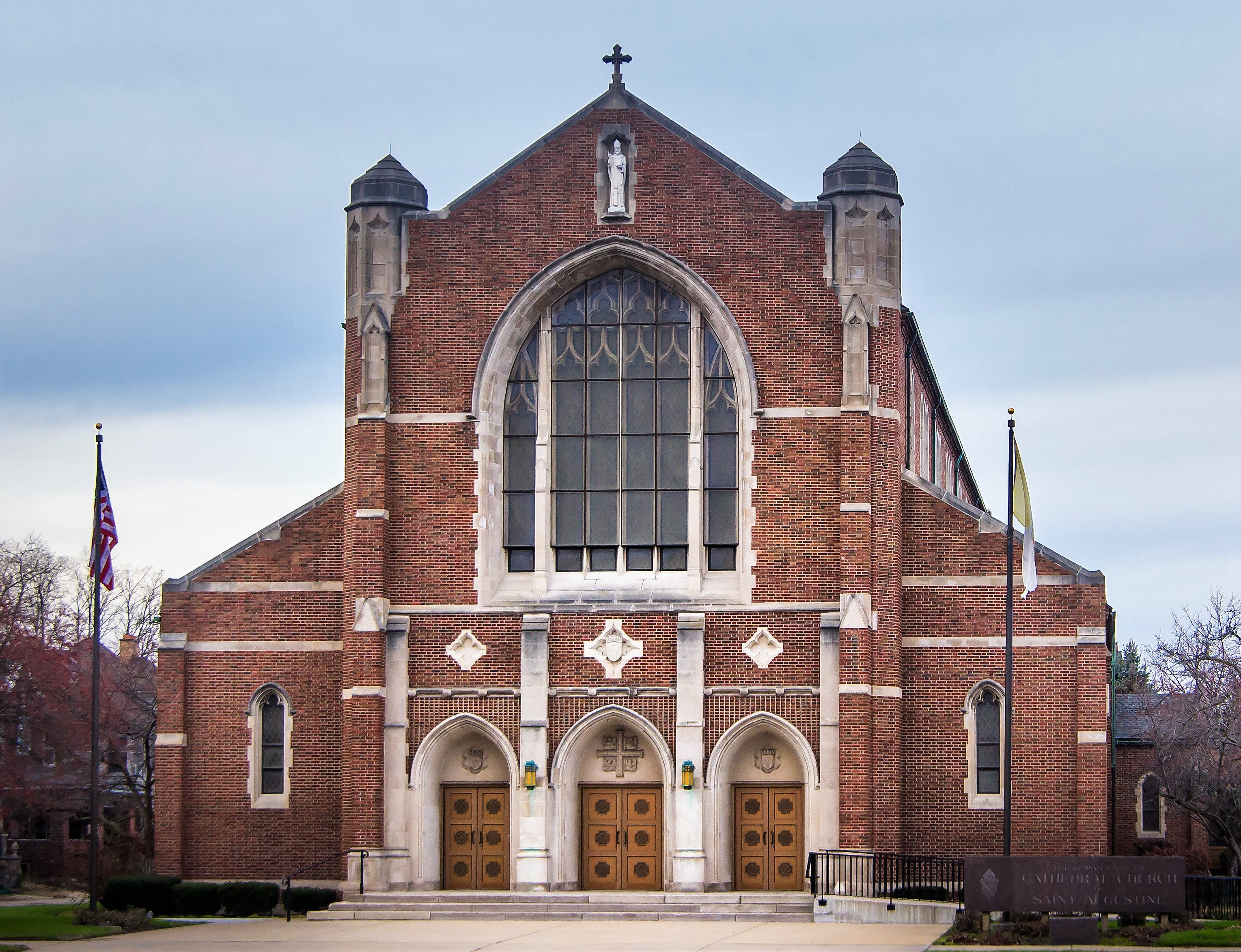 Cathedral of Saint Augustine (Kalamazoo, Michigan)